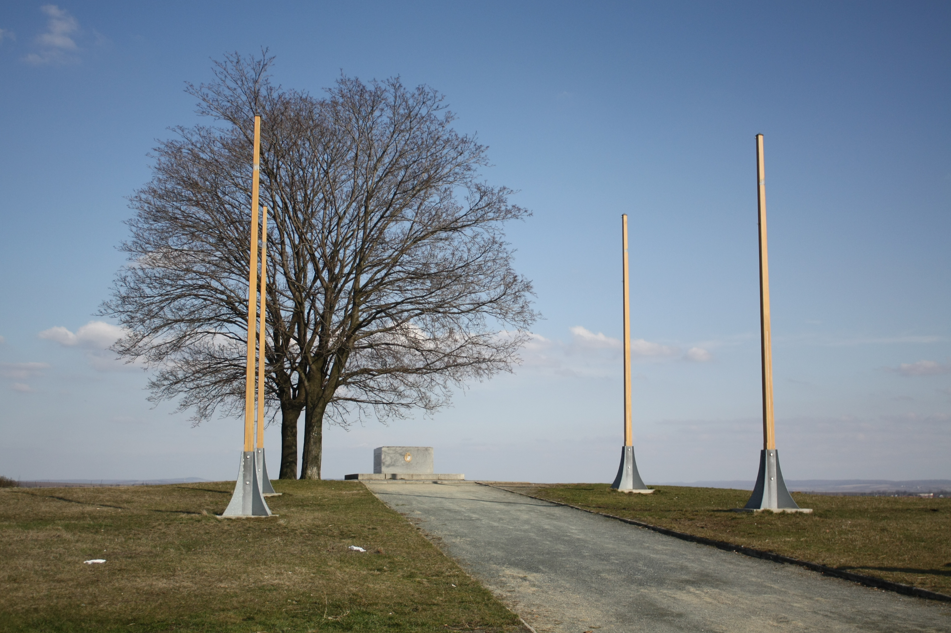 Žuráň hill, Brno-Country District, Czech Republic